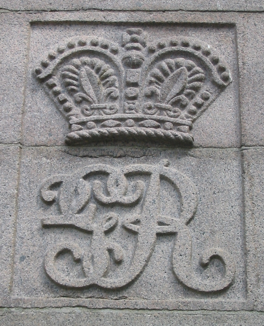 Royal cipher of George II on pedestal of statue in Royal Square, Jersey